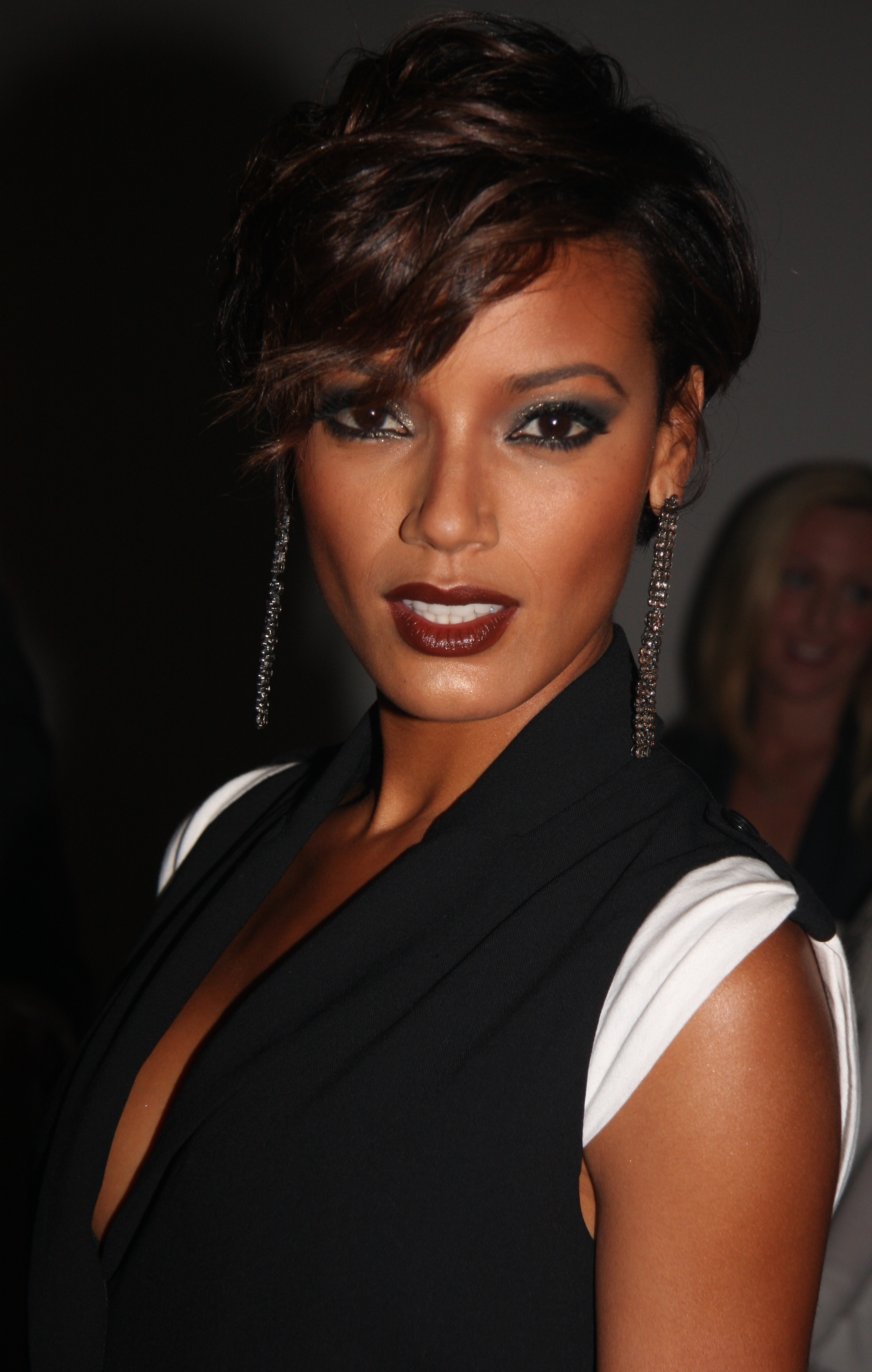 Selita Ebanks in June 2009.